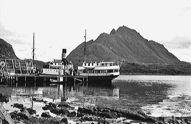 Norwegian local steamer DS Mosken in Vesterålen. This ship was built in 1924, and were also employed as a relief ship in the coastal express service (Hurtigruten).